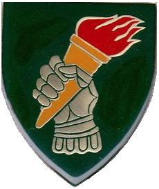 SADF era Ladybrand Commando emblem